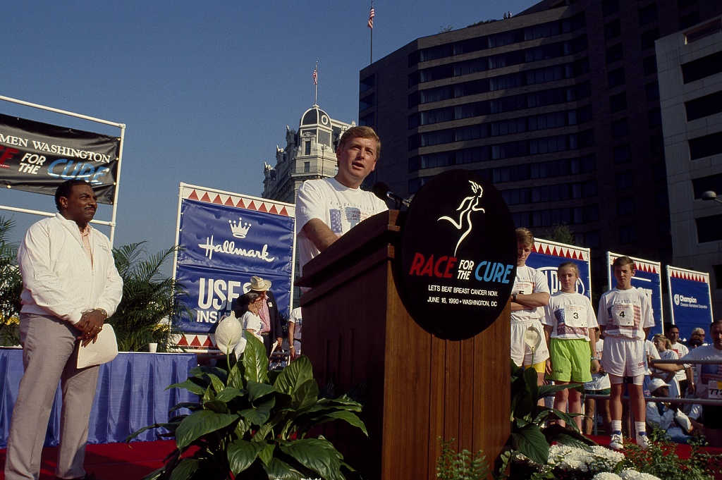 Vice President Dan Quayle speaks at Race for the Cure on Pennsylvania Avenue, Washington, D.C., 1990